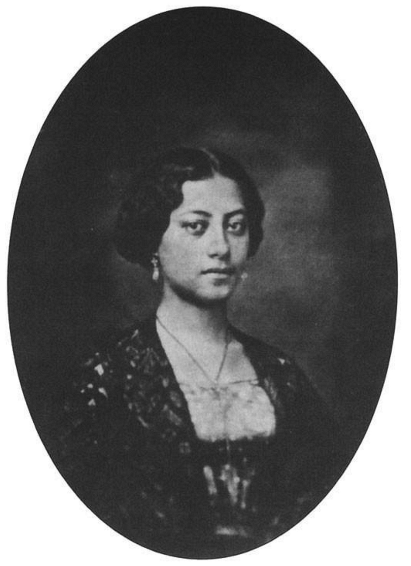 Queen Emma photograph from around the time of her wedding on June 19, 1856. Possibly an engagement photograph.